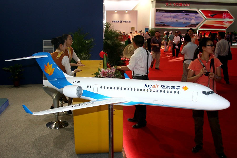 Model of an ARJ-21 from Joy Air seen at the Airshow China 2008 in Zhuhai